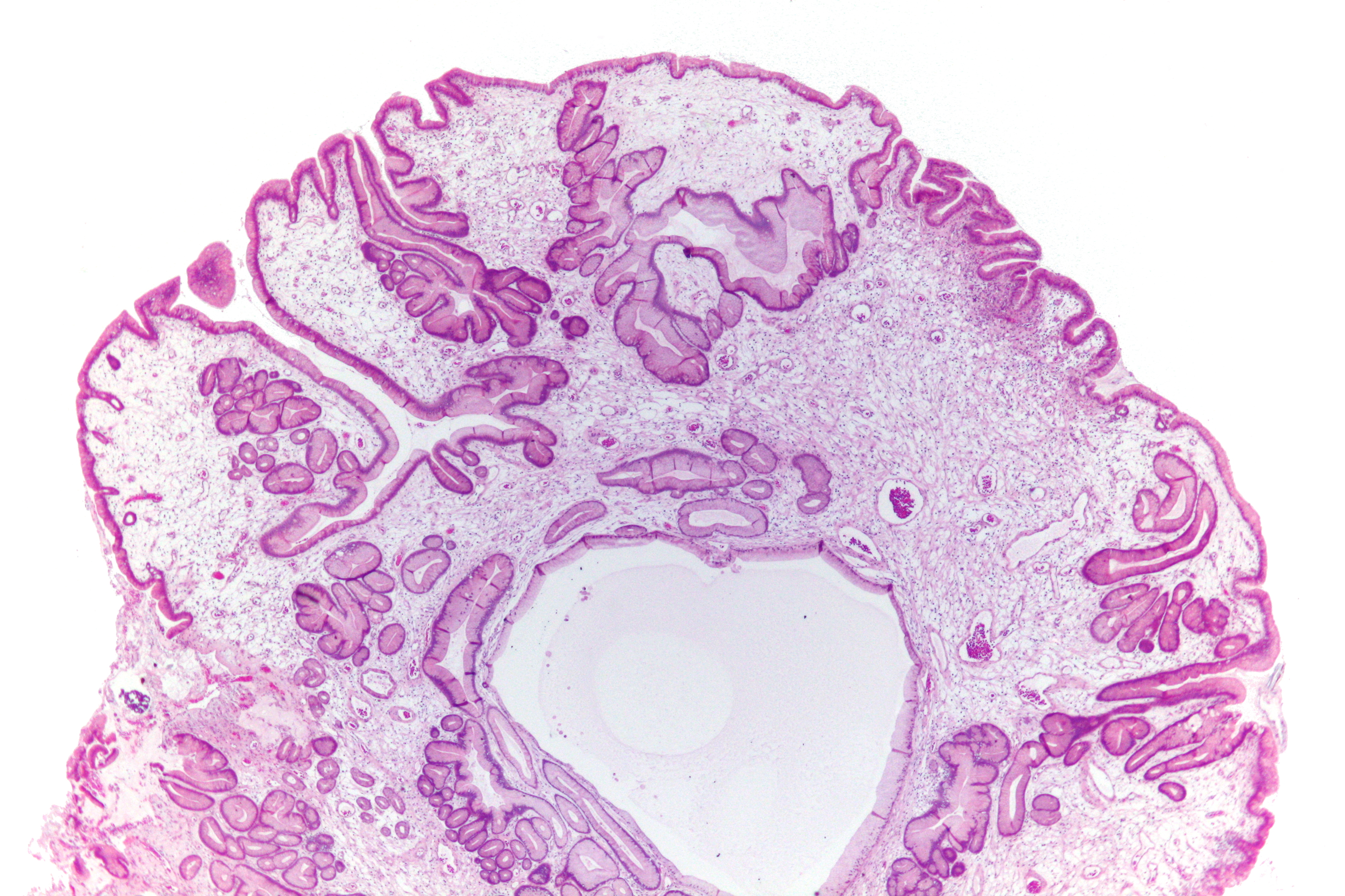 Very low magnification micrograph of a gastric juvenile polyp. H&E stain. Features of juvenile polyps: Dilated glands. Increased lamina propria & inflammation. Eroded surface. Stalk. Related images